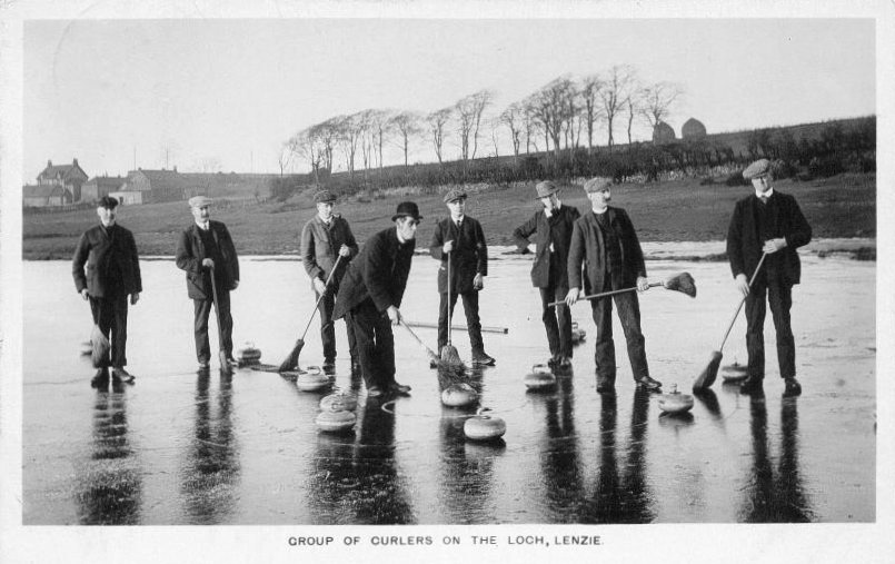 Scan of a postcard made/sold in 1910.The shot was taken from the south-east direction and West Gadloch Farm is visible in the top left of the image. Wikipedia Media copyright questions board confirmed that:"Anything published before 1923 is in the public domain in the United States and can be uploaded here."